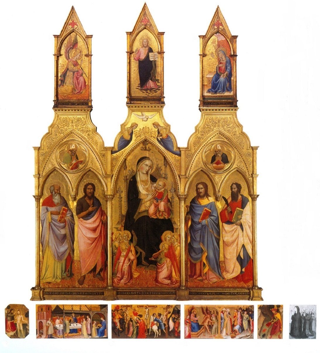 Polyptych of the Santa Maria degli Angeli. Reconstruction.